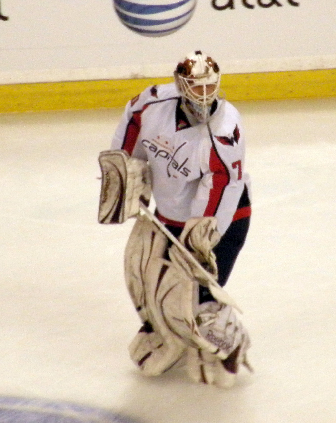 Braden Holtby in a Washington Capitals jersey.